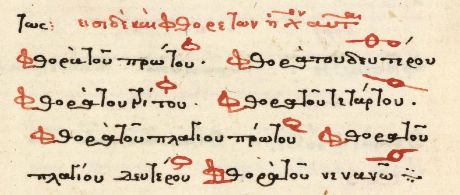 List of phthorai in a Papadike music treatise.